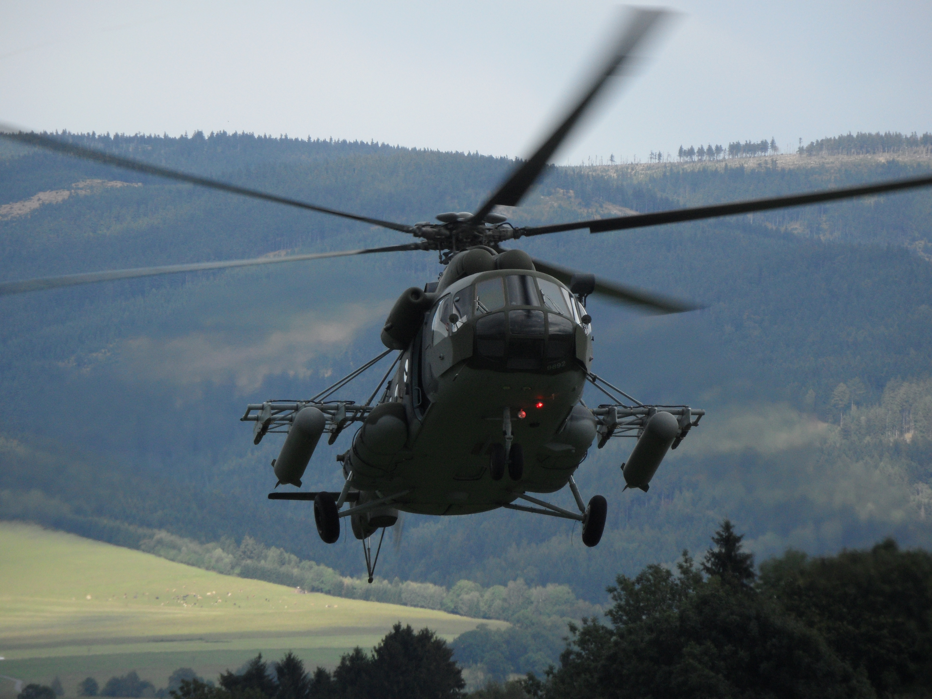 Akce Cihelna 2014 C2. Presentation with Landing from Helicopter, Králíky, Ústí nad Orlicí District, the Czech Republic.